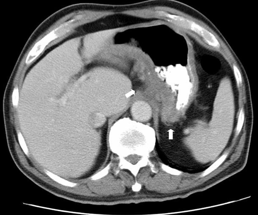 CT scan of patient shown Crohn's disease in the fundus of the stomach. Released into public domain on permission of patient -- Samir धर्म 10:27, 3 June 2006 (UTC)